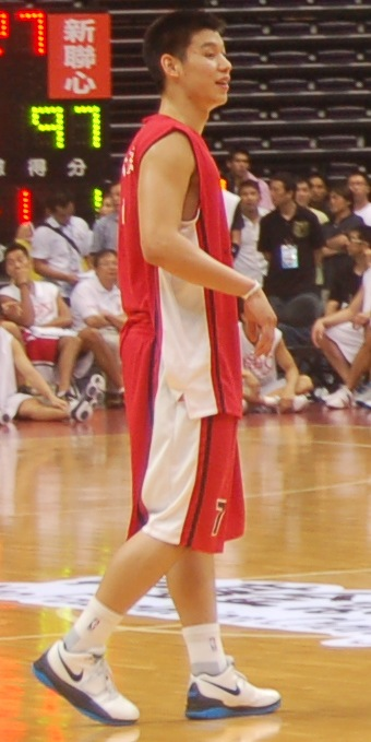 Jeremy Lin's Taiwan debut as an NBA professional